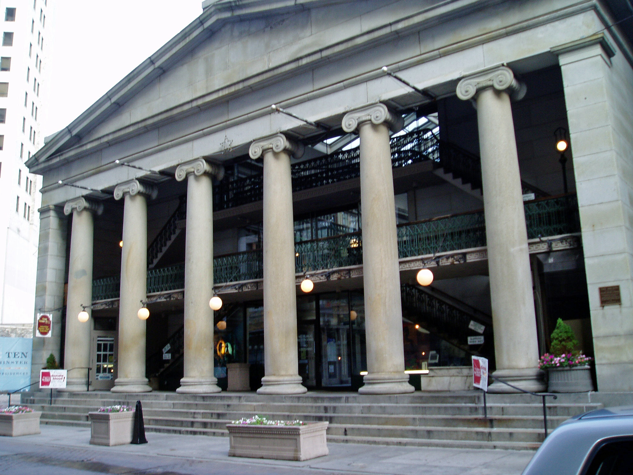 The Westminster Arcade, the oldest standing enclosed shopping mall in America, built in 1828. The Arcade is still a functional shopping center in Providence, RI.